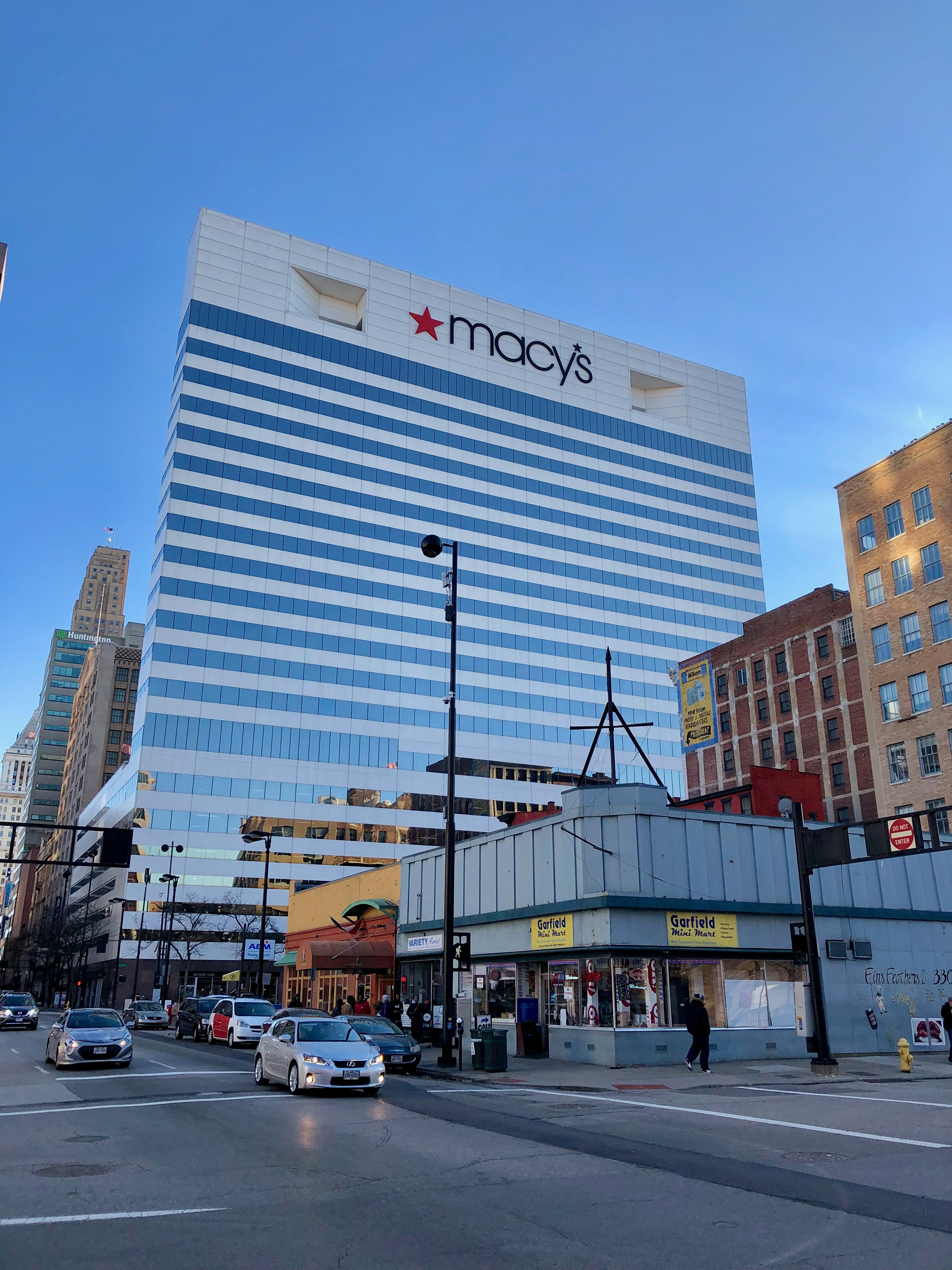 Downtown, Cincinnati, OH, USA